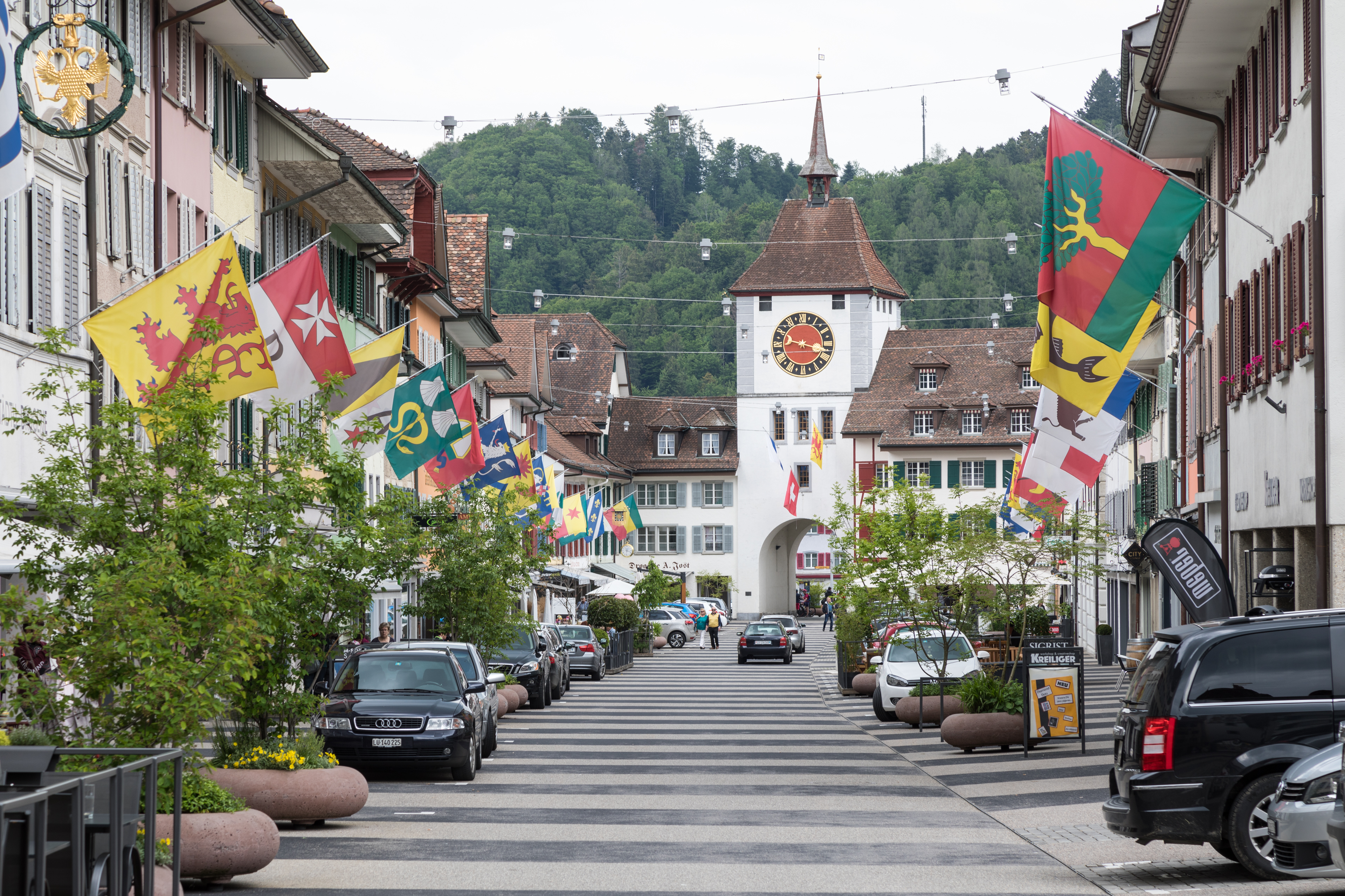 Willisau, canton of Lucerne: Main street and lower gate